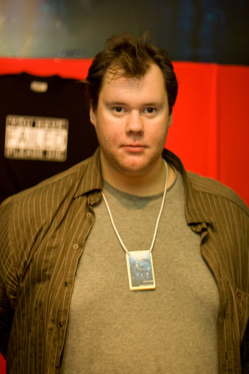 Jarmo Puskala, one of the writers of the Star Wreck: In the Pirkinning movie, at the Assembly 2008 computer festival.